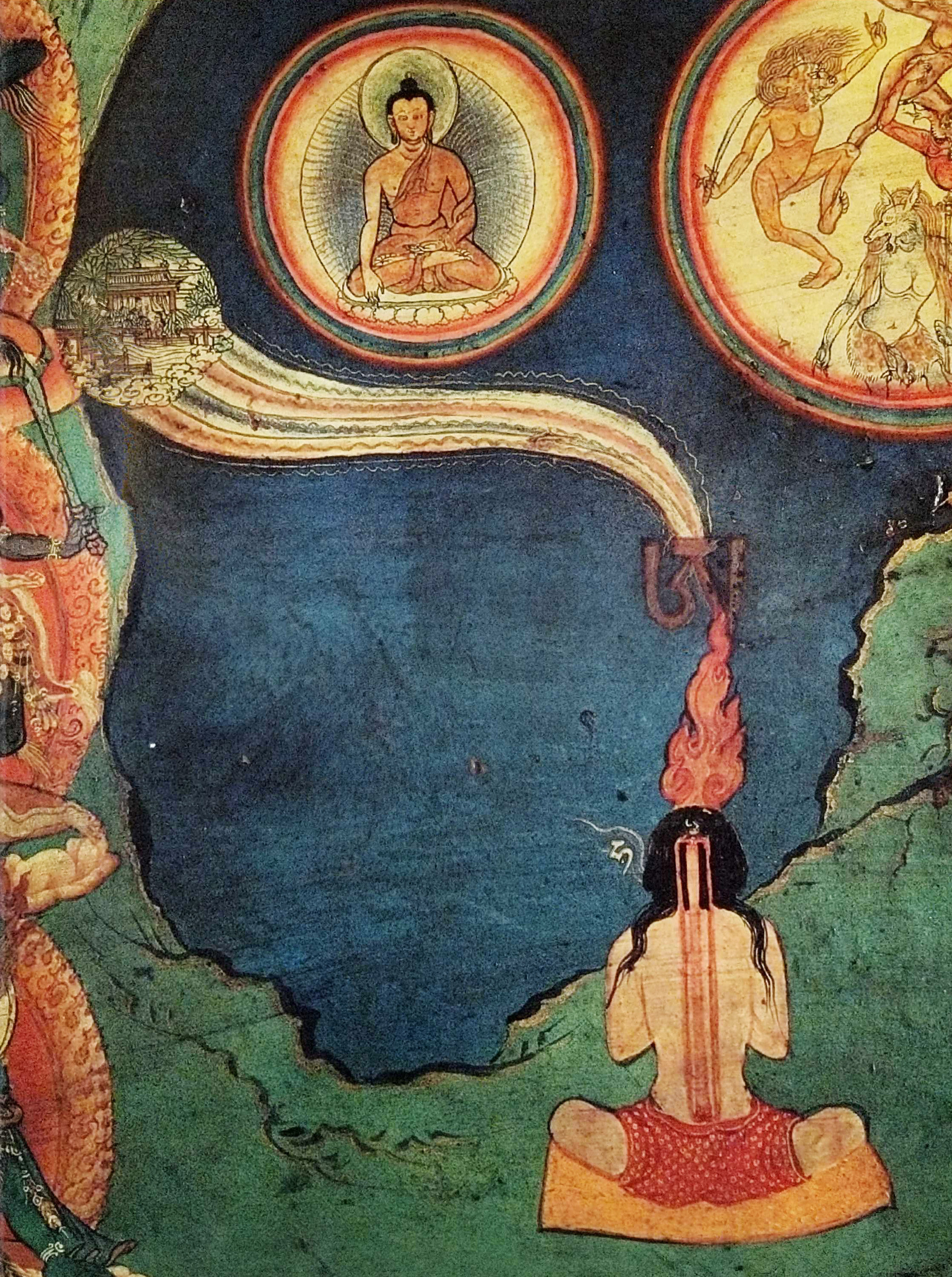 Illustration of the yogic practice of Tummo from an ancient Tibetan edition, X-XII centuries AD, probably of the sage Milarepa